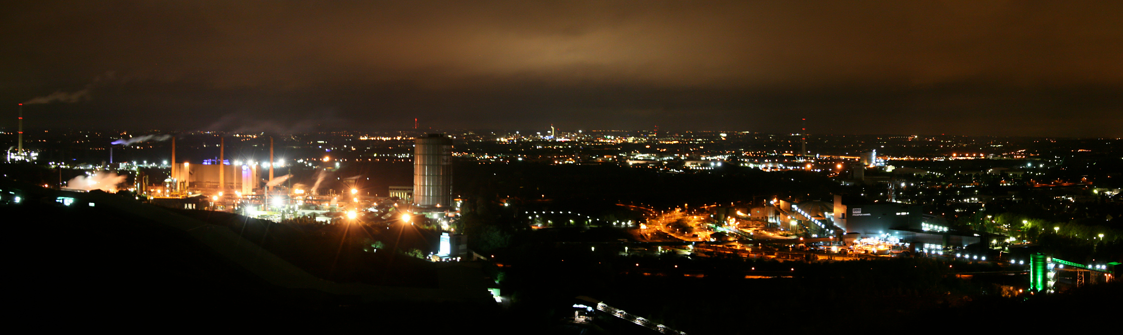 Nightly view from the Tetraeder in Bottrop in southeastern direction. On the left hand side there is the illuminated coke oven plant “Prosper”. On the right there is the pit “Prosper II”. The background lights come from the city of Essen.